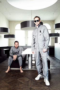 Tosca, Richard Dorfmeister and Rupert Huber, photographed by foto di matti in the Muenzclub, Berlin